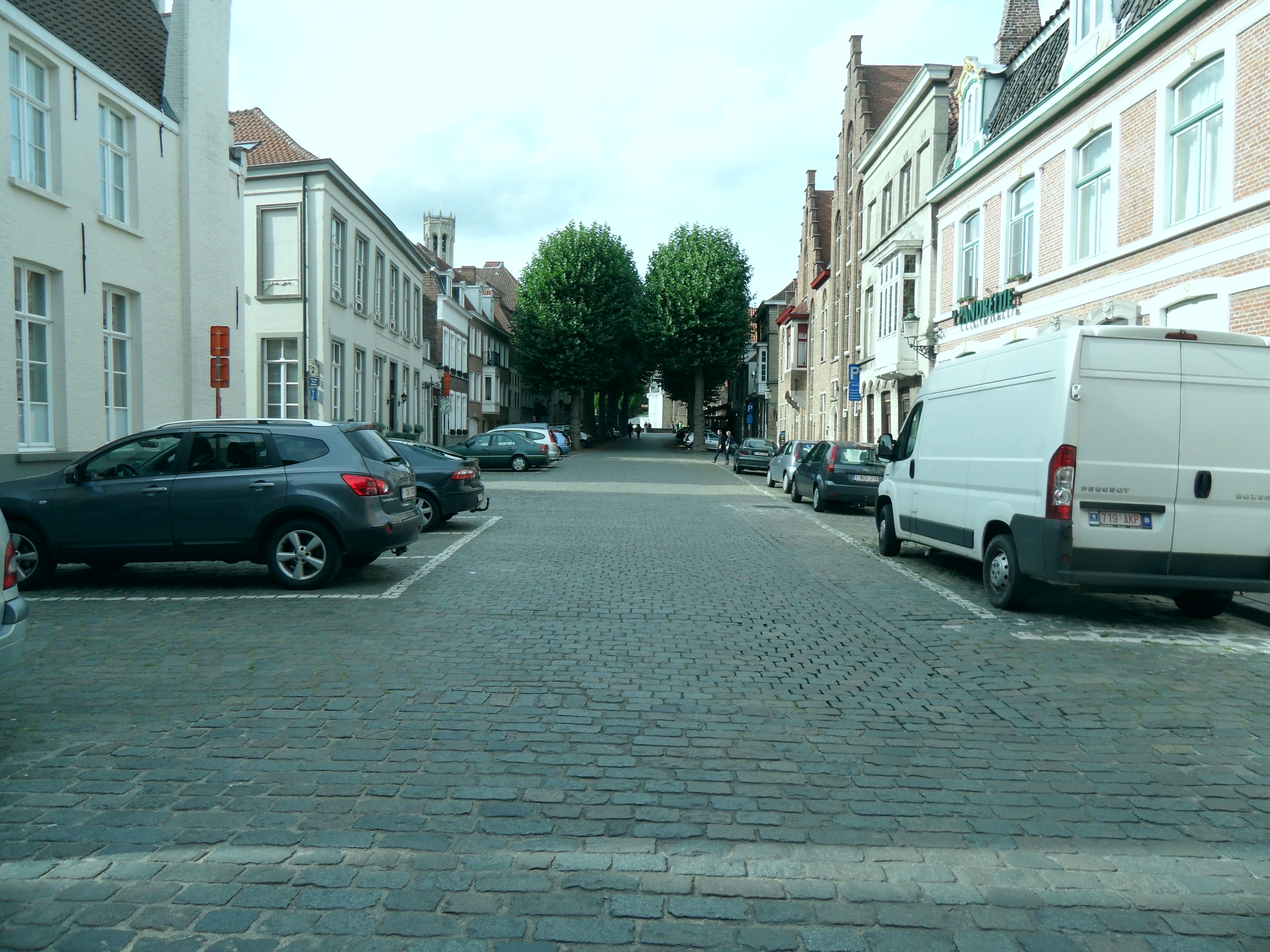 Pandreitje,Brugge